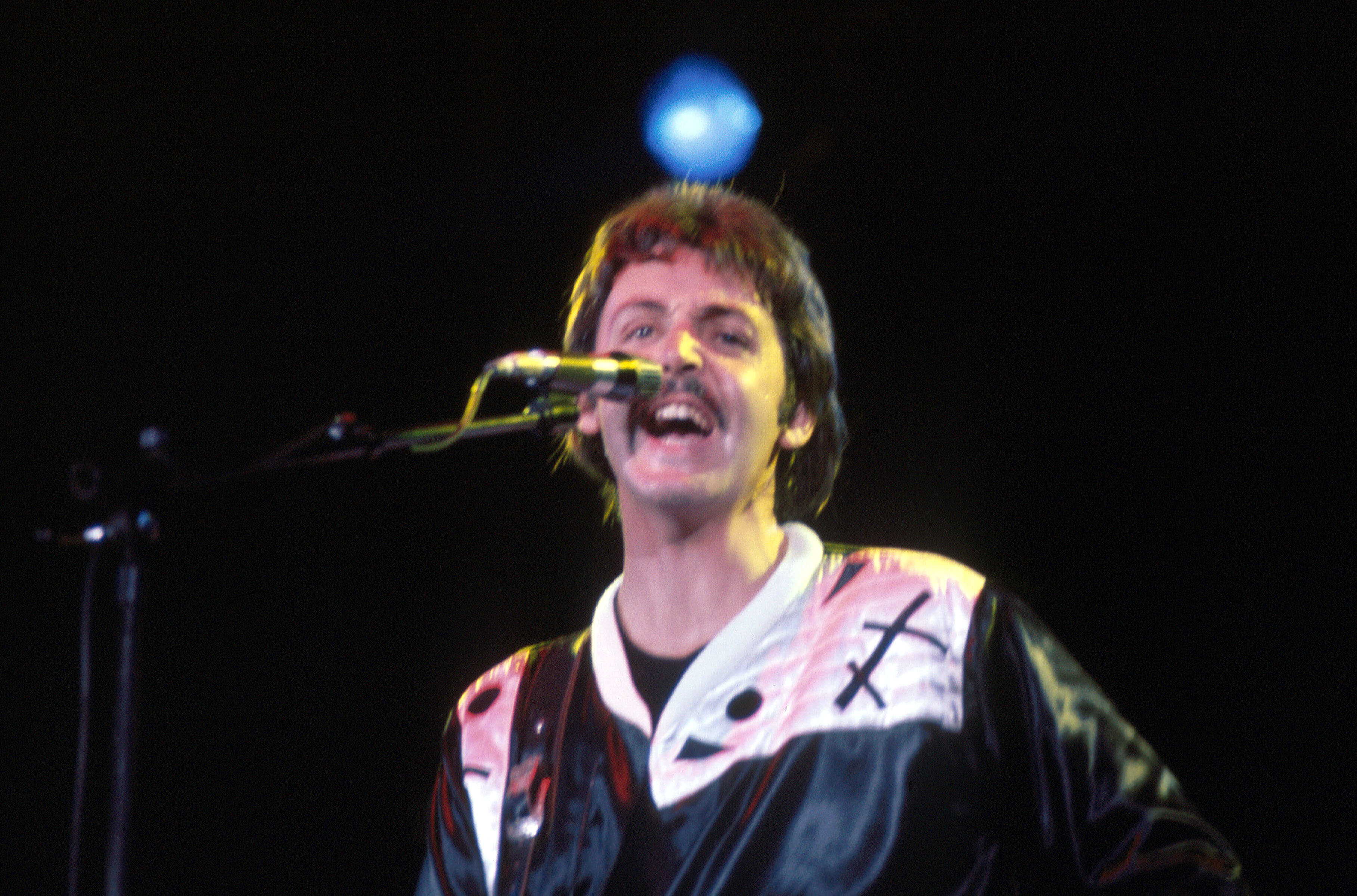 Paul McCartney on stage in Venice, Italy